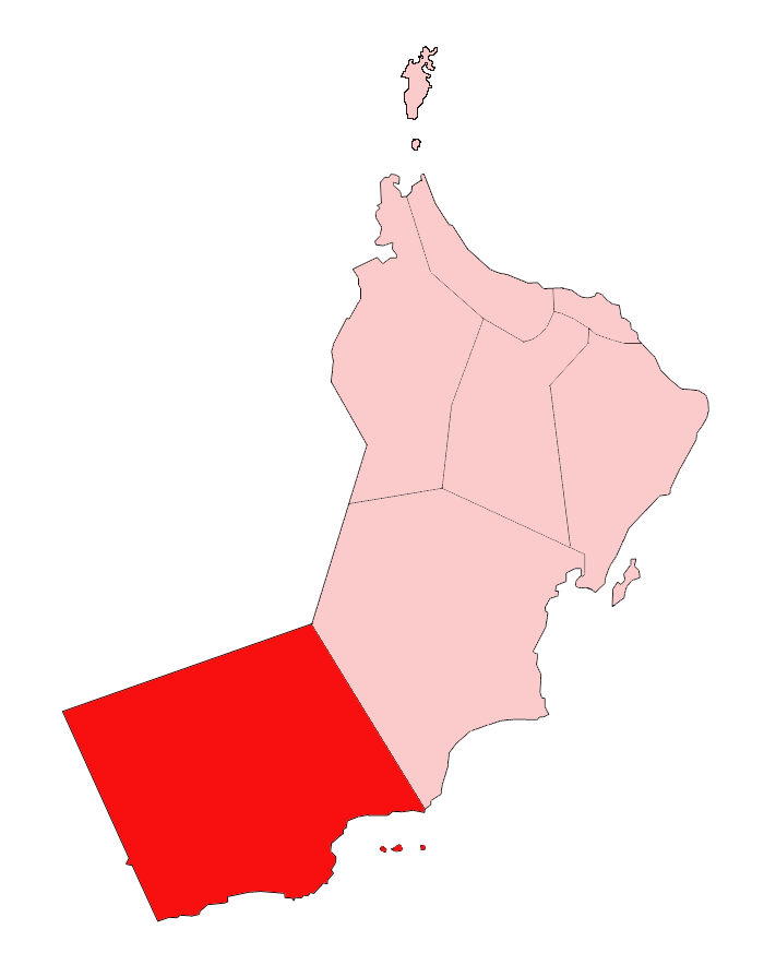 Map of Oman showing Zufar (Dhofar) governorate